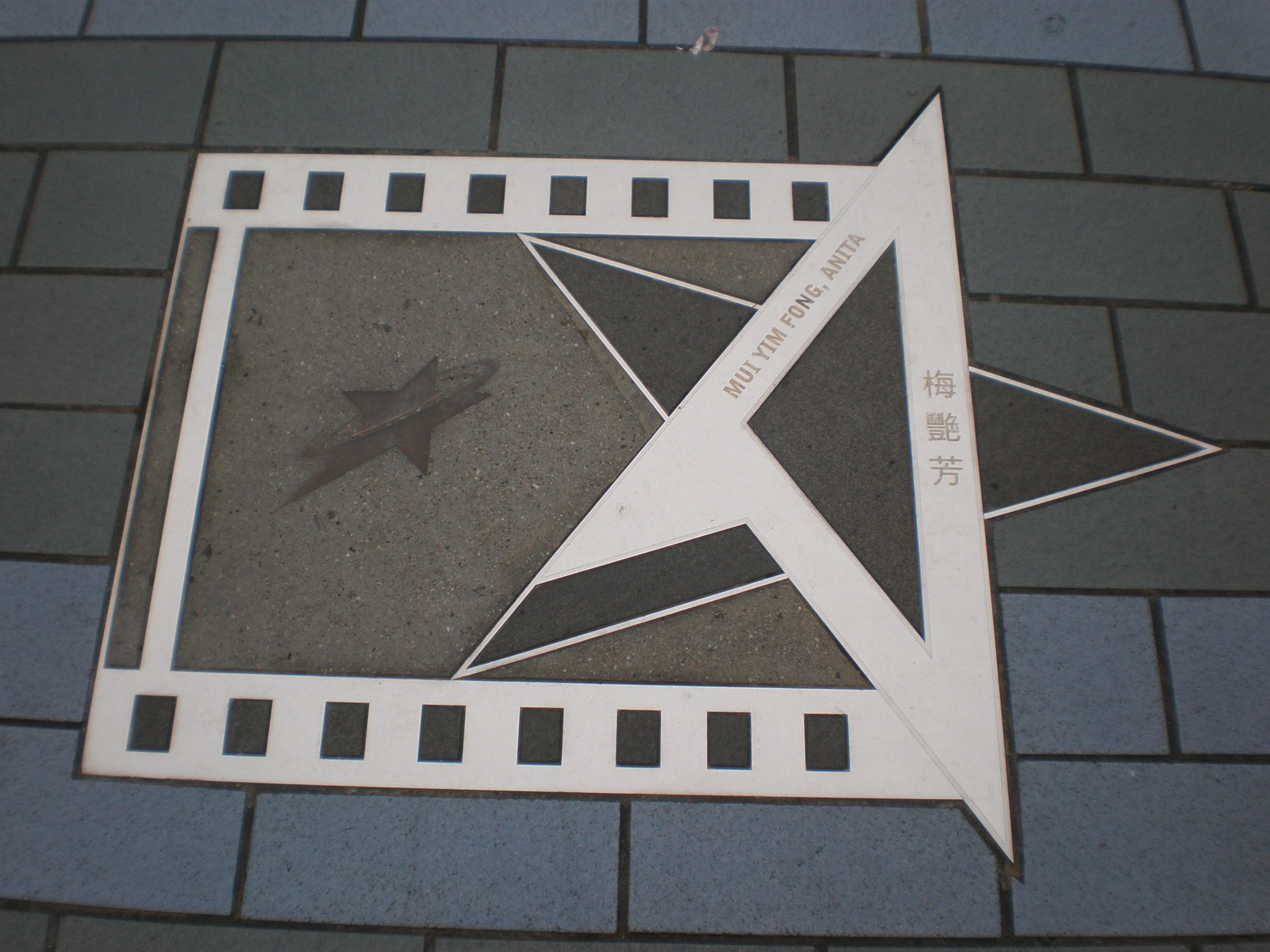 Star of Anita Mui Yim Fong on the Avenue of Stars in Hong Kong.